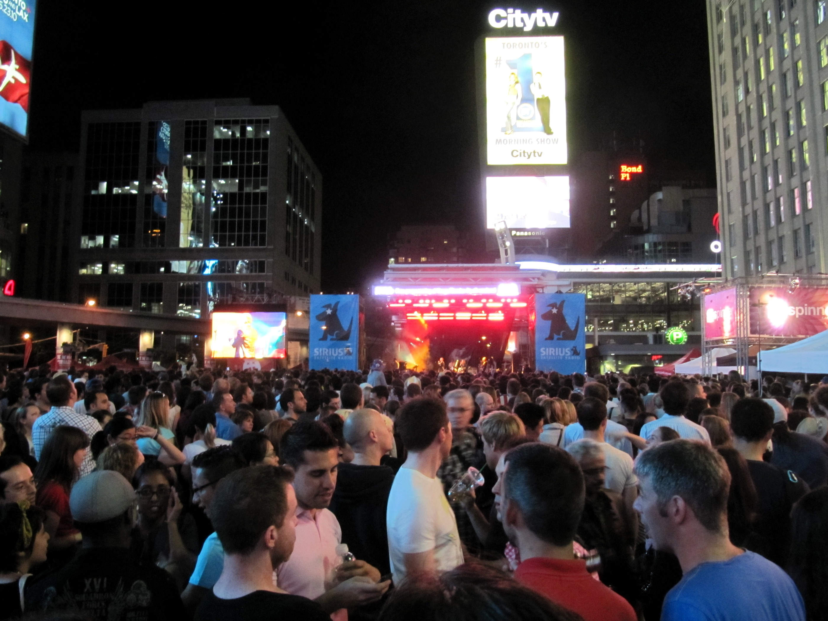 Outdoor concert by Stars at Yonge Dundas Square for Luminato the North by Northeast music festival.